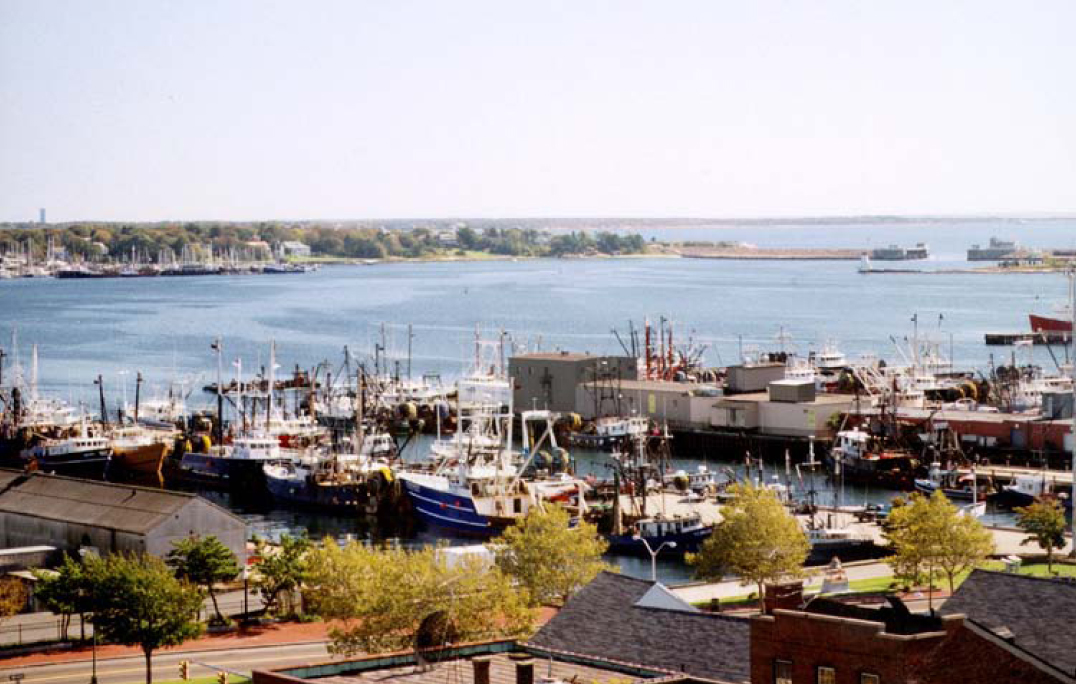 New Bedford, Massachusetts - view of harbor Obtained from Category:Images_of_Massachusetts Transwiki details Originally from en.wikipedia; description page is/was here. 2004-05-06 (original upload date) Original uploader was Kevin Saff at en.wikipedia